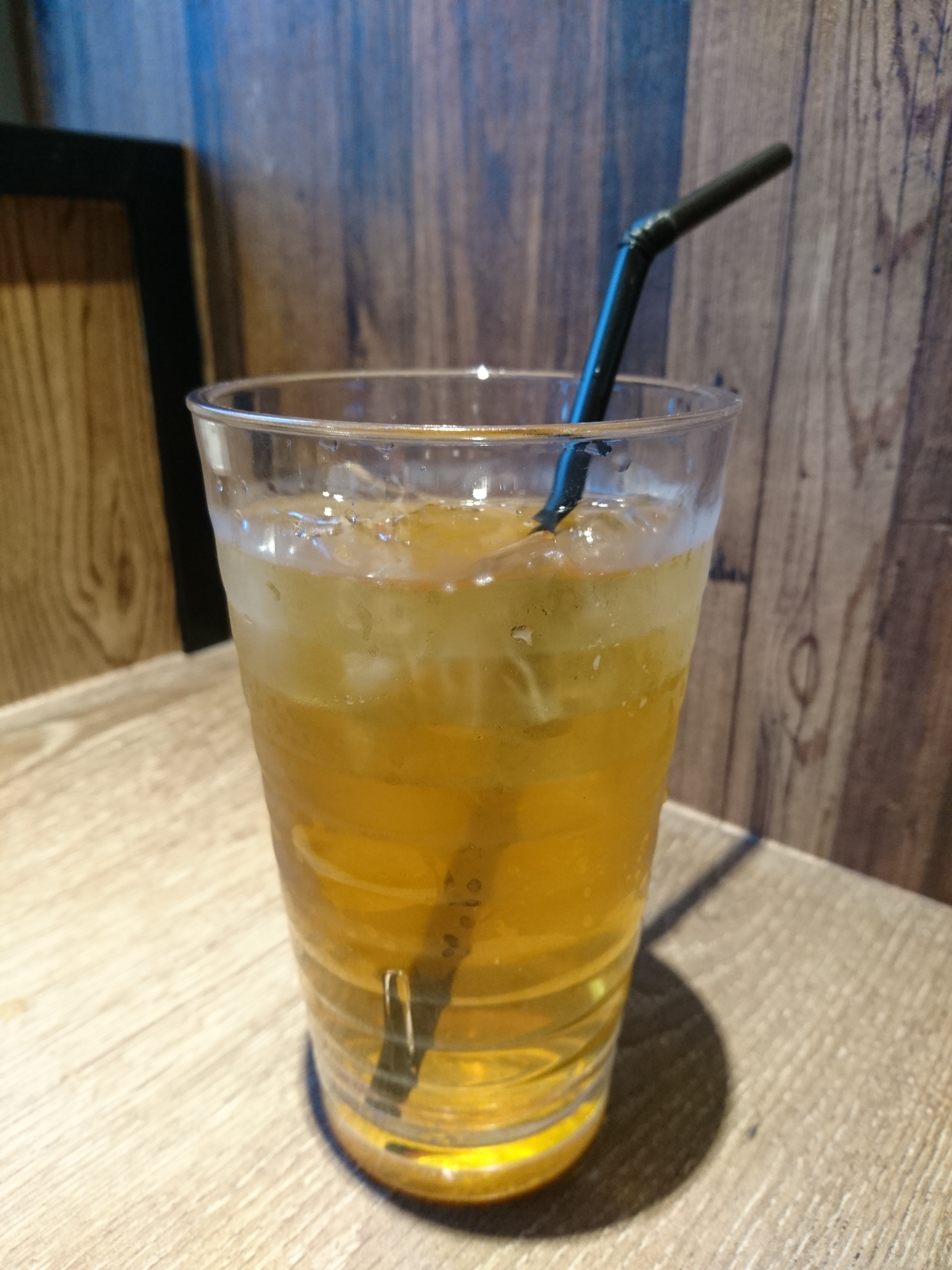 Iced Green Tea